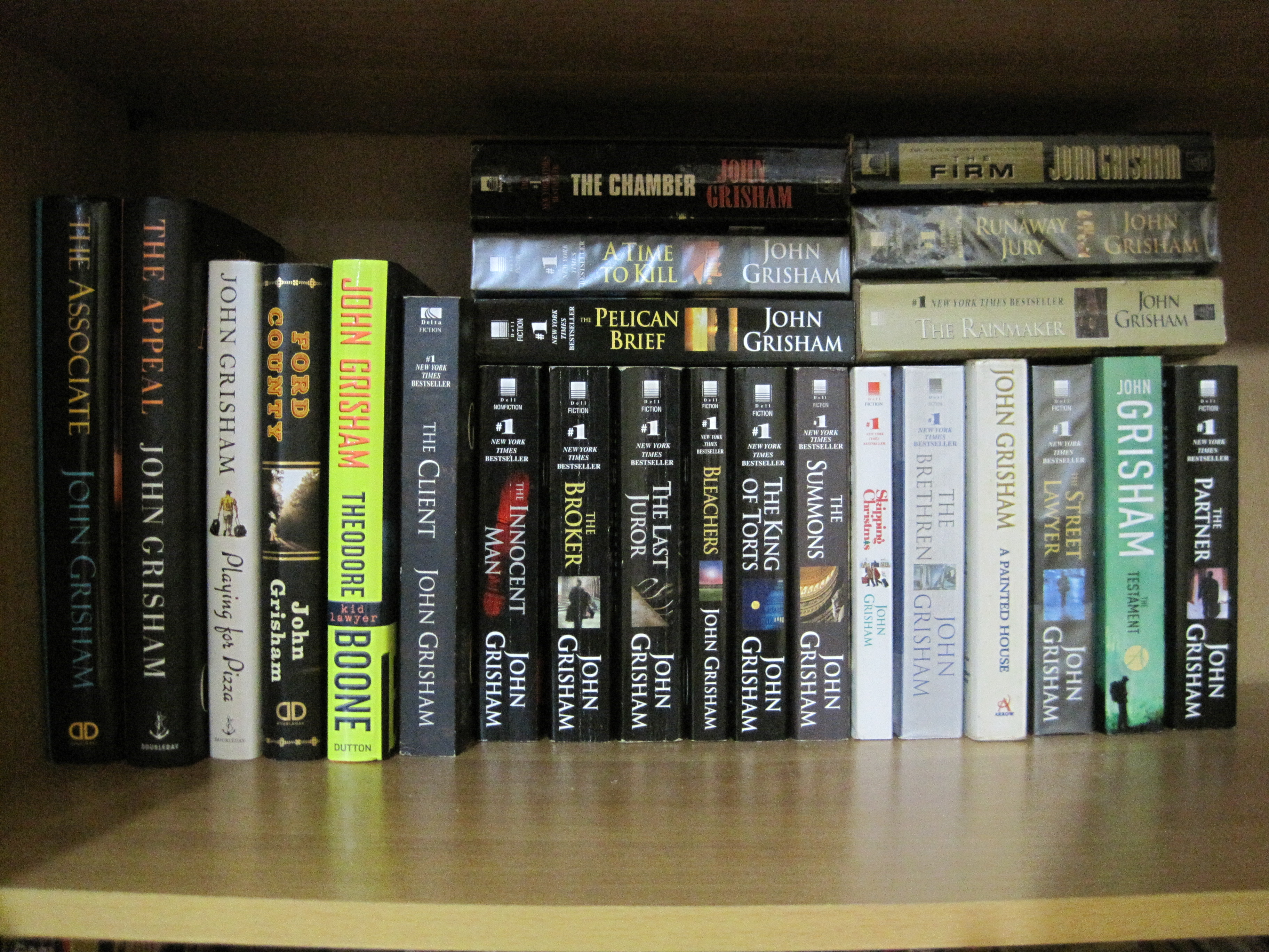 All 24 John Griham novels as of June 30, 2010